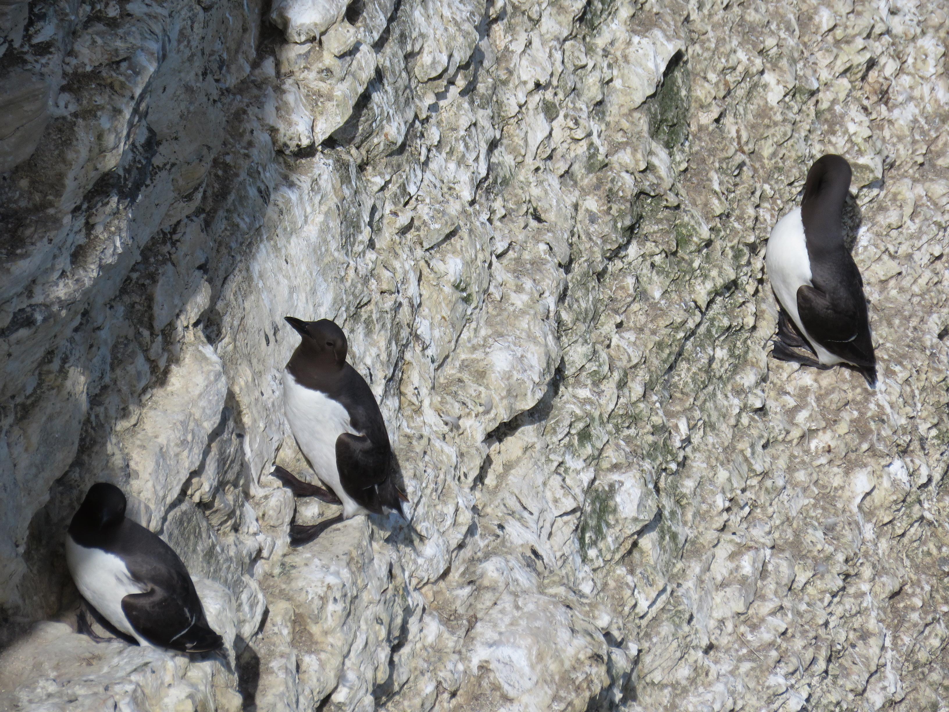 guillemots, RSPB Bempton Cliffs